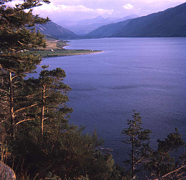 Loch Broom, near to Ardcharnich, Highland, Great Britain. Looking southwards along the eastern coastline from the car park at Creag Aimhreidh. The alluval fan of Ardcharnich is just ahead.